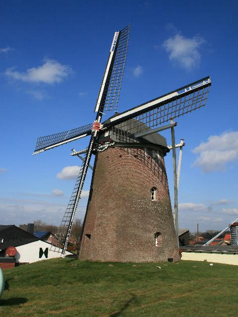 German Windmill